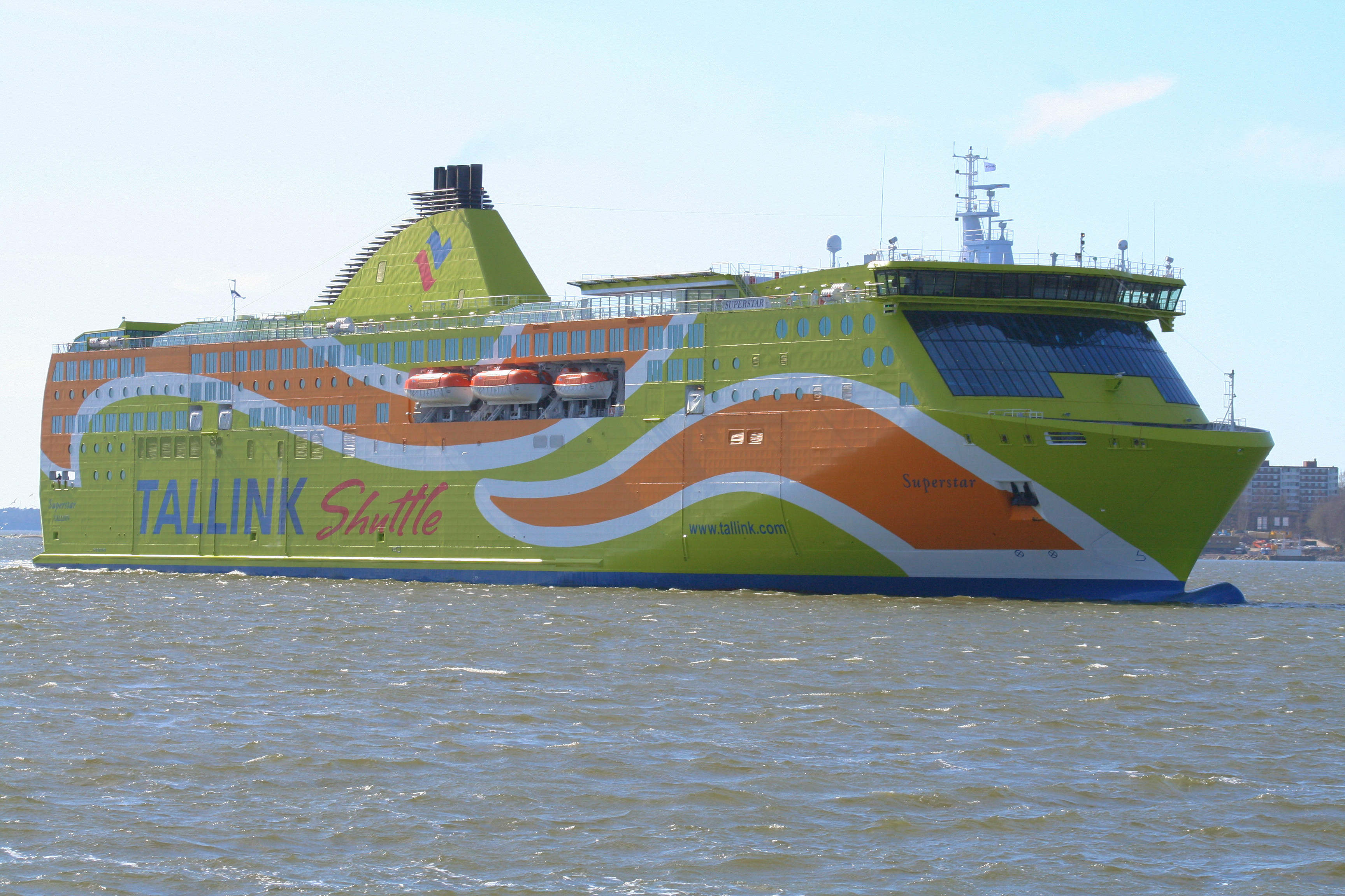 Tallink fast cruiseferry MS Superstar arriving in Helsinki West Harbour on third day of service.